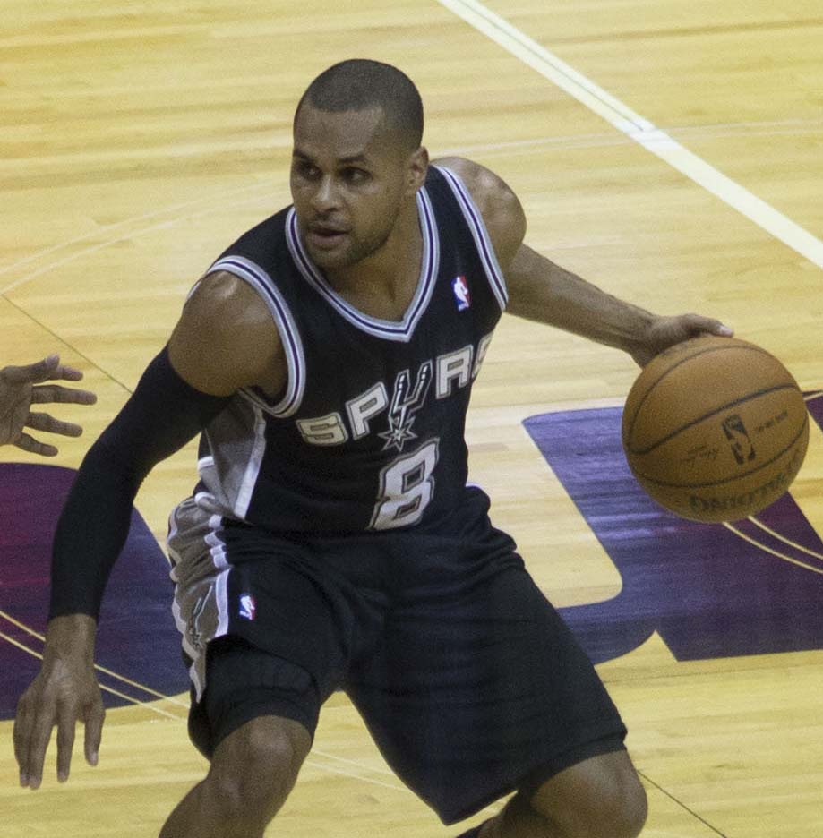 Patty Mills